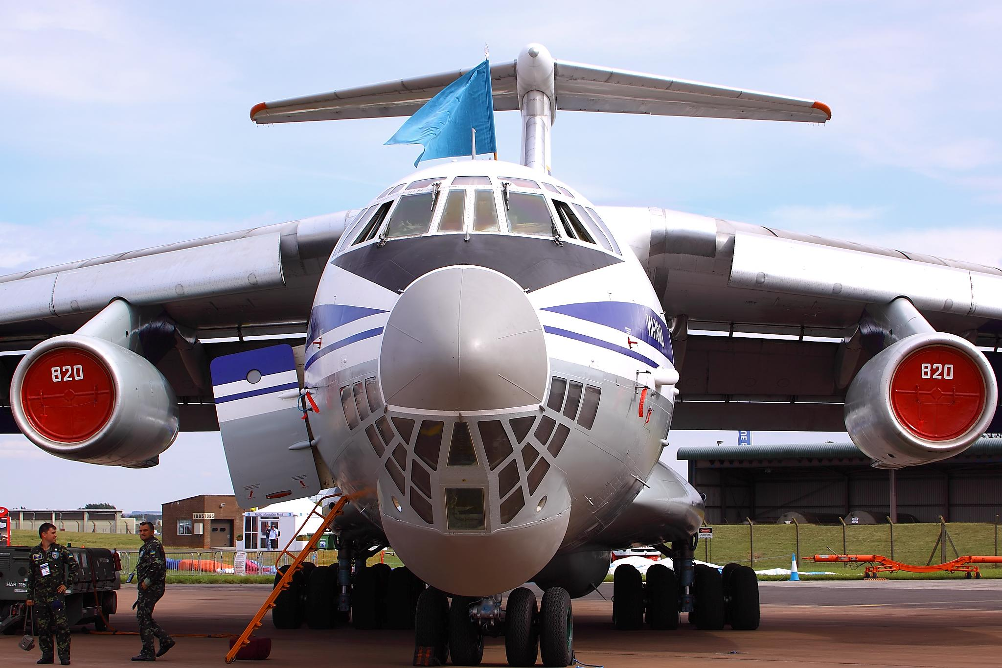 IL-76 - RIAT 2011